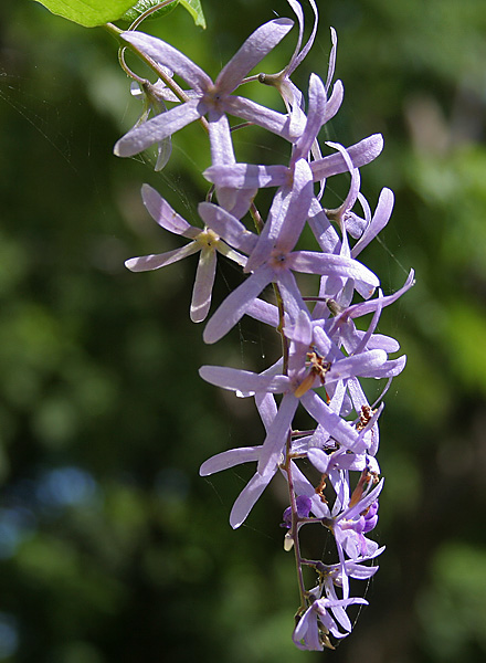 Queen's Wreath, Purple Wreath, Sandpaper Vine, Bluebird Vine or NilmaniPetrea volubilis in Hyderabad , India.